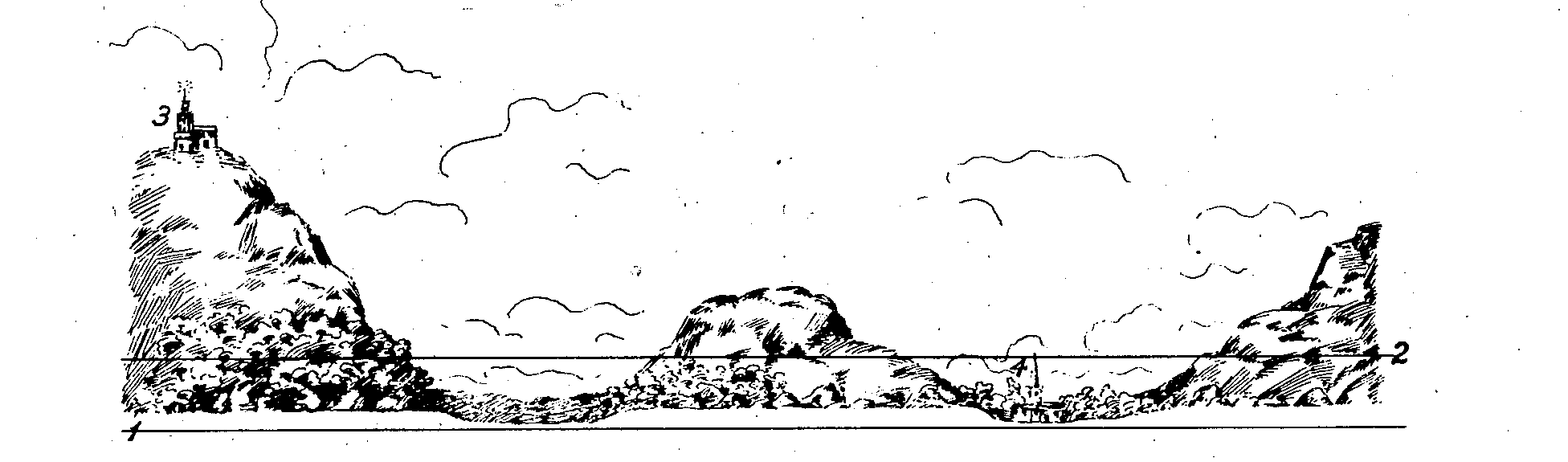 This image concerns the landscape concerning the explanation of lightning protectors. In Nikola Tesla's "Lightning-Protector" (U.S. Patent 1266175), he discusses an early type of dissipater-arrester, which the patent states to prevent and safely dissipate lightning strikes. In the 1918, description, novel and advantageous construction of a protector in accord with the true character of the phenomena of ligtning is described. This corrects Benjamin Franklin's hypothesis, and subsequent construction, for such devices.